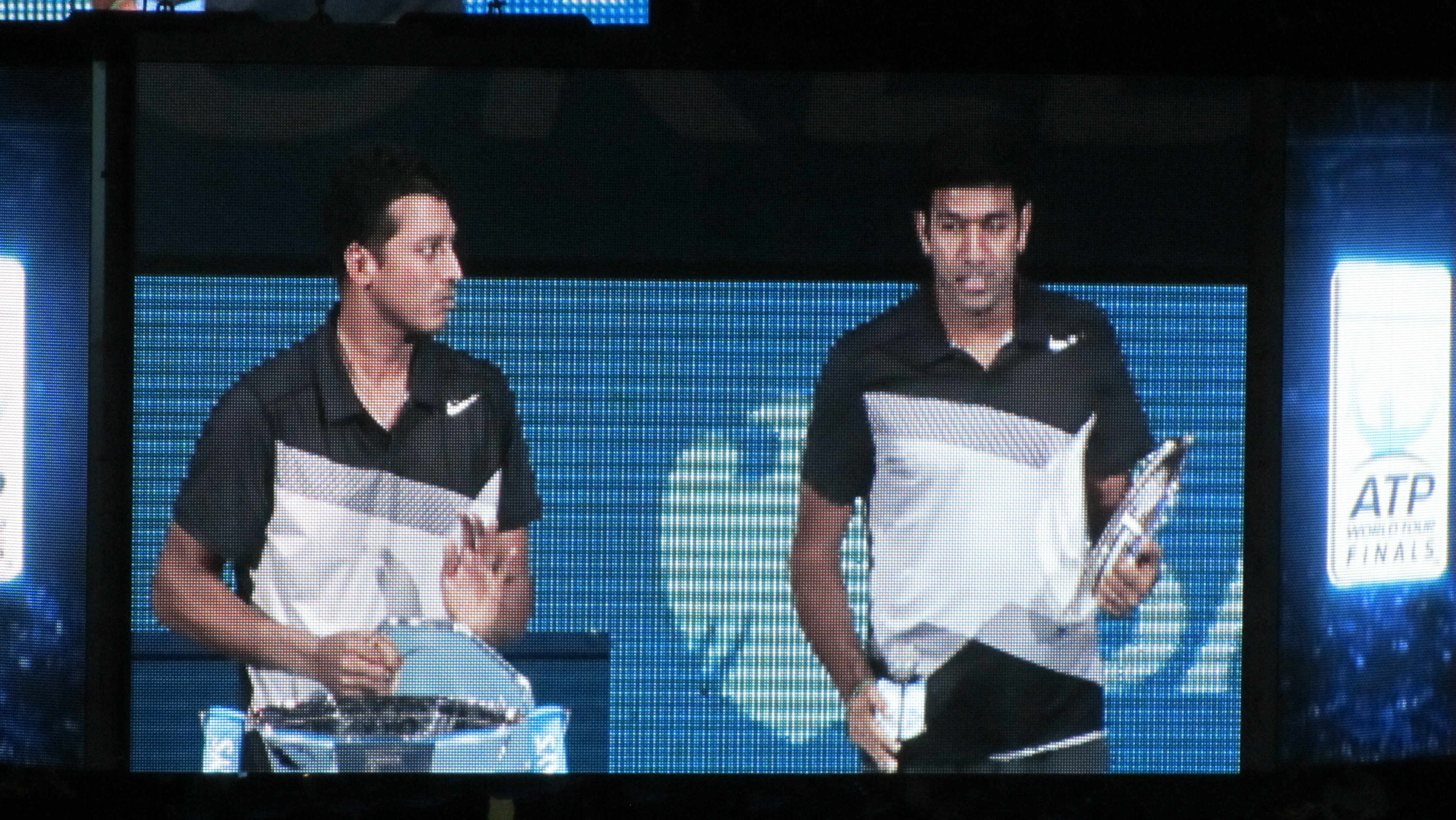 On the big screen the runners up.